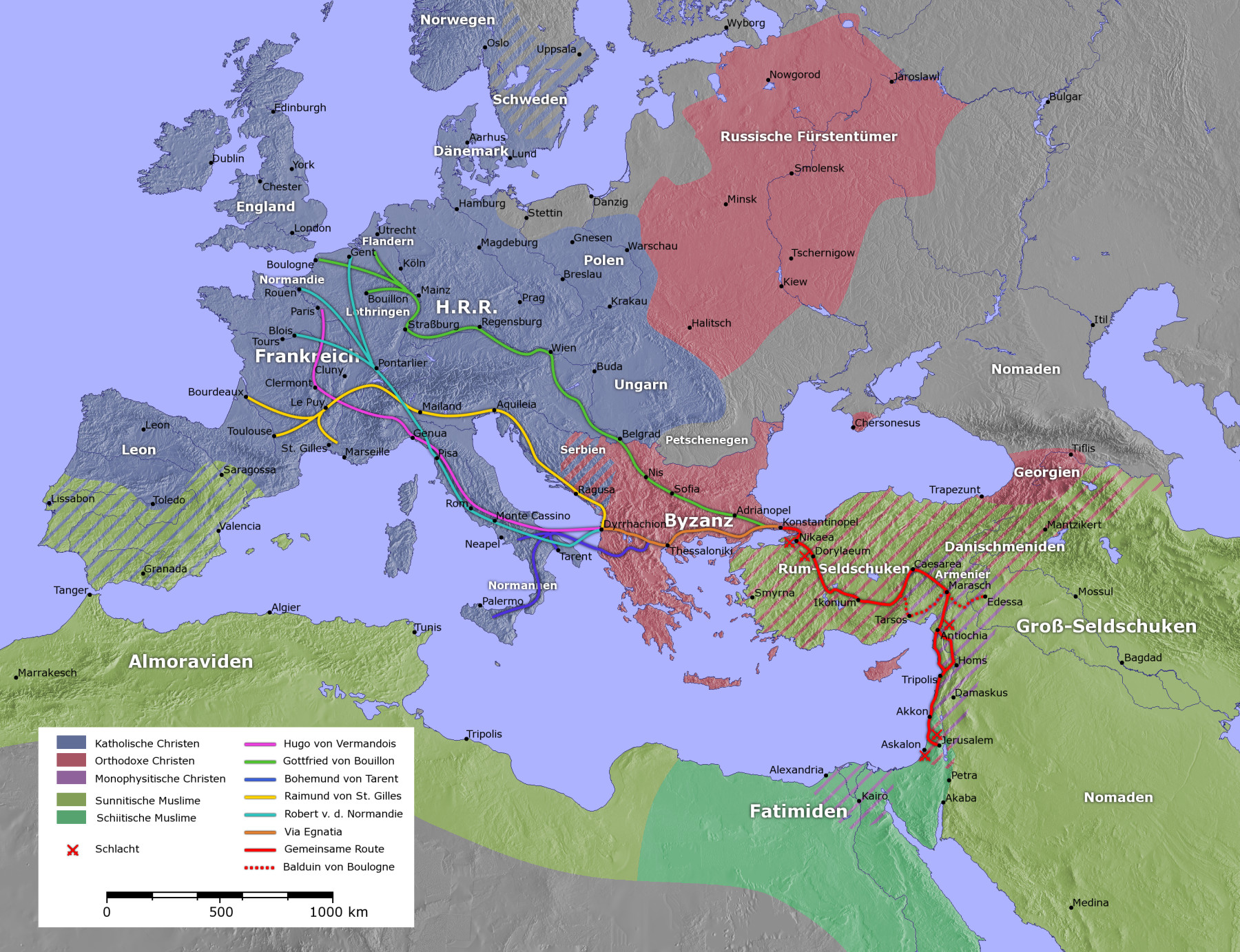 Map of the first crusade